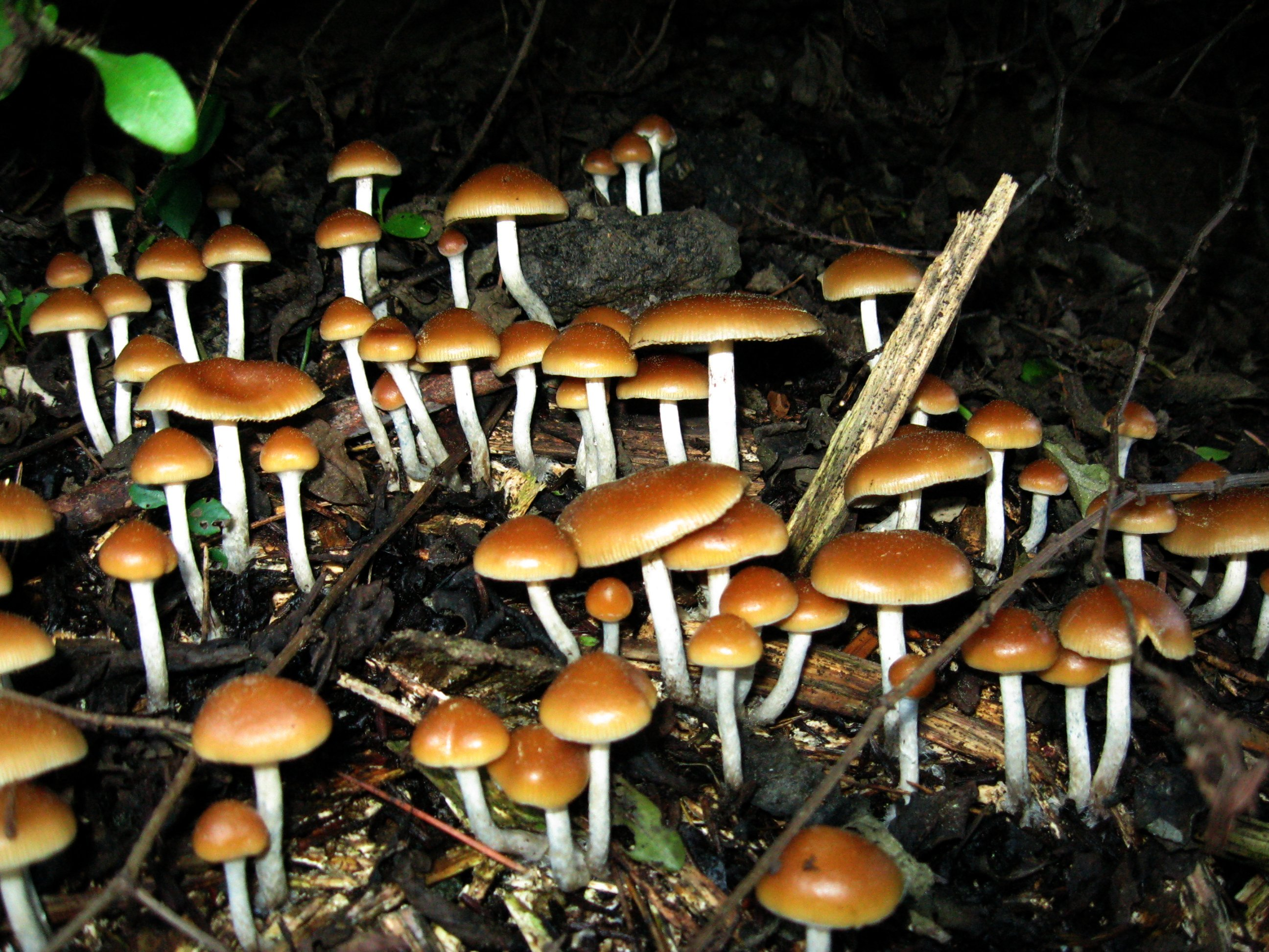 Psilocybe “cyanofriscosa” Location: Sunnyvale, CA Observation Notes: Growing in irrigated wood chip landscaping. For more information about this, see the observation page at Mushroom Observer.